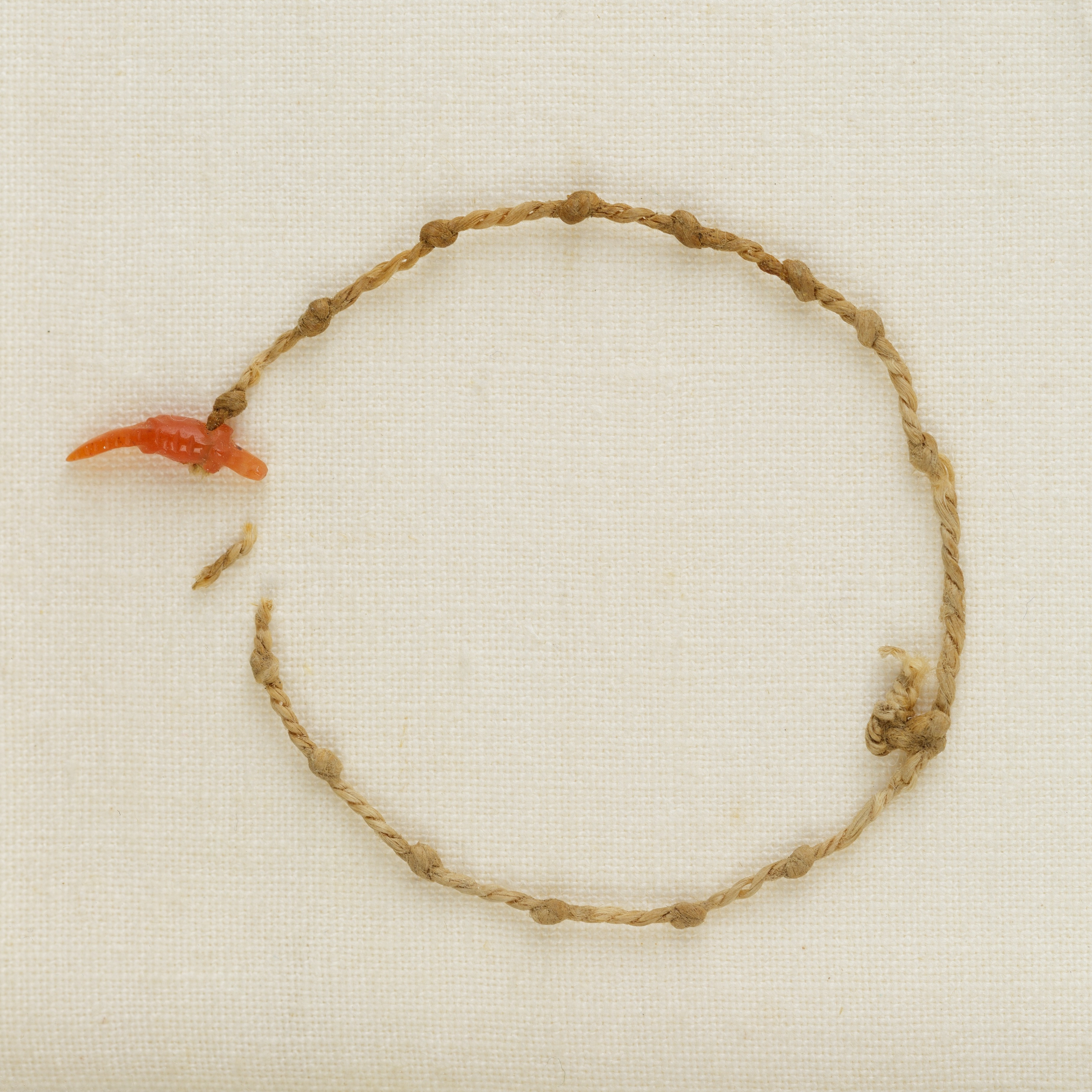 Bracelet, Henettawy F, crocodile